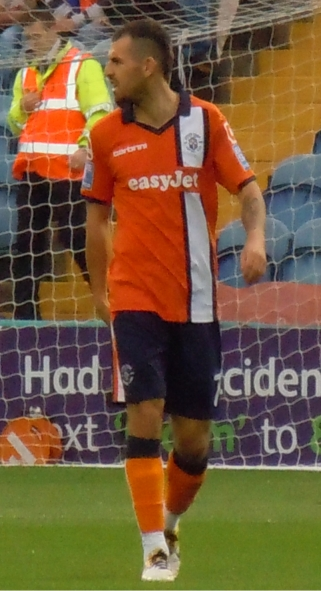 Alex Lawless